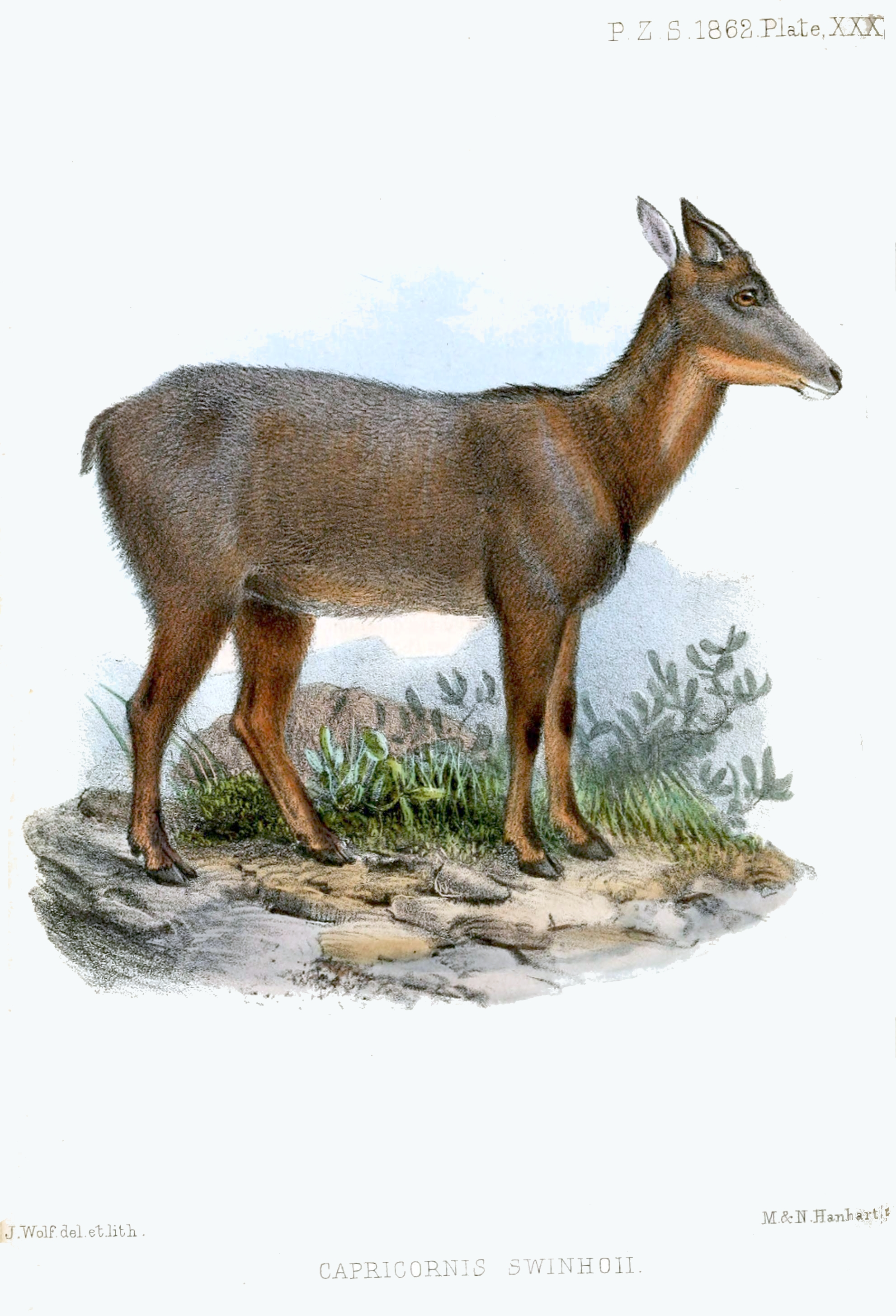 Taiwan Serow